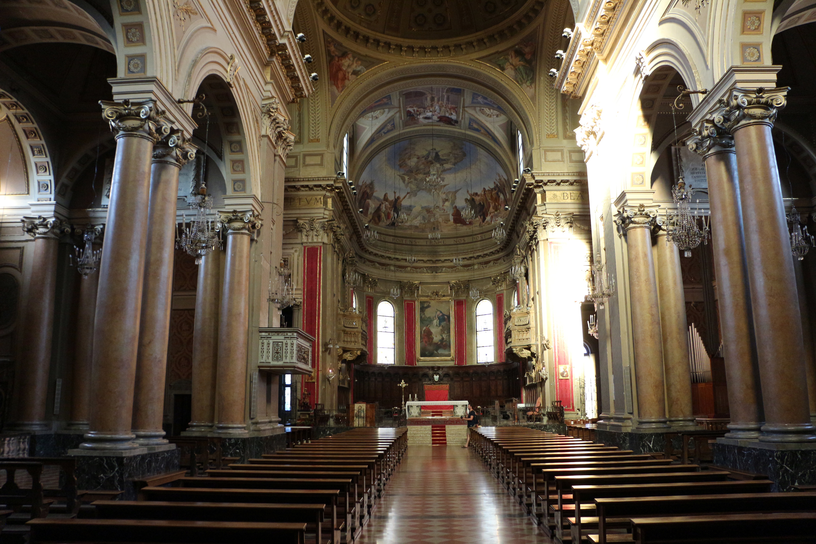 Buildings in Macerata